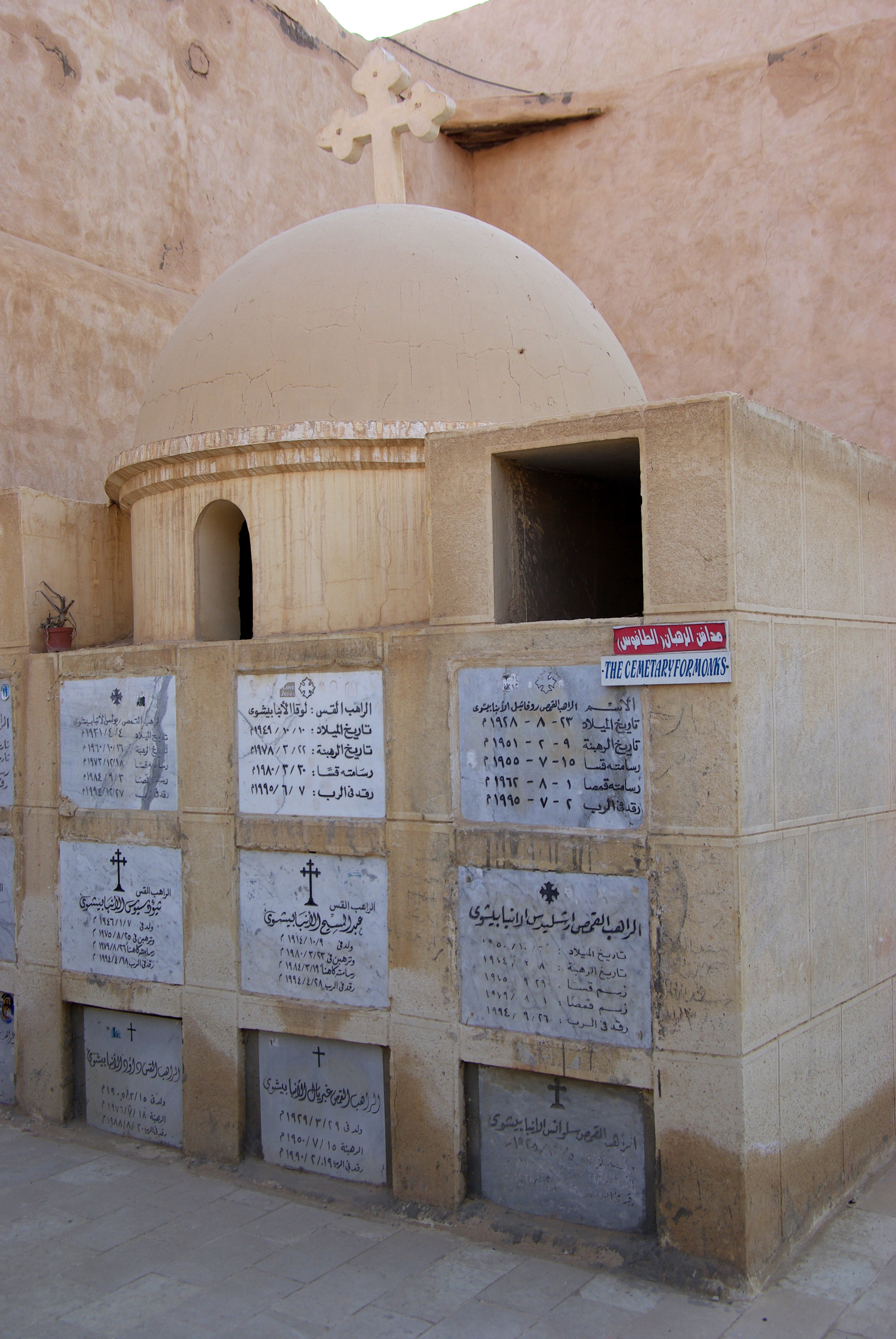 Cemetary at the Bishoy monastry in Egypt